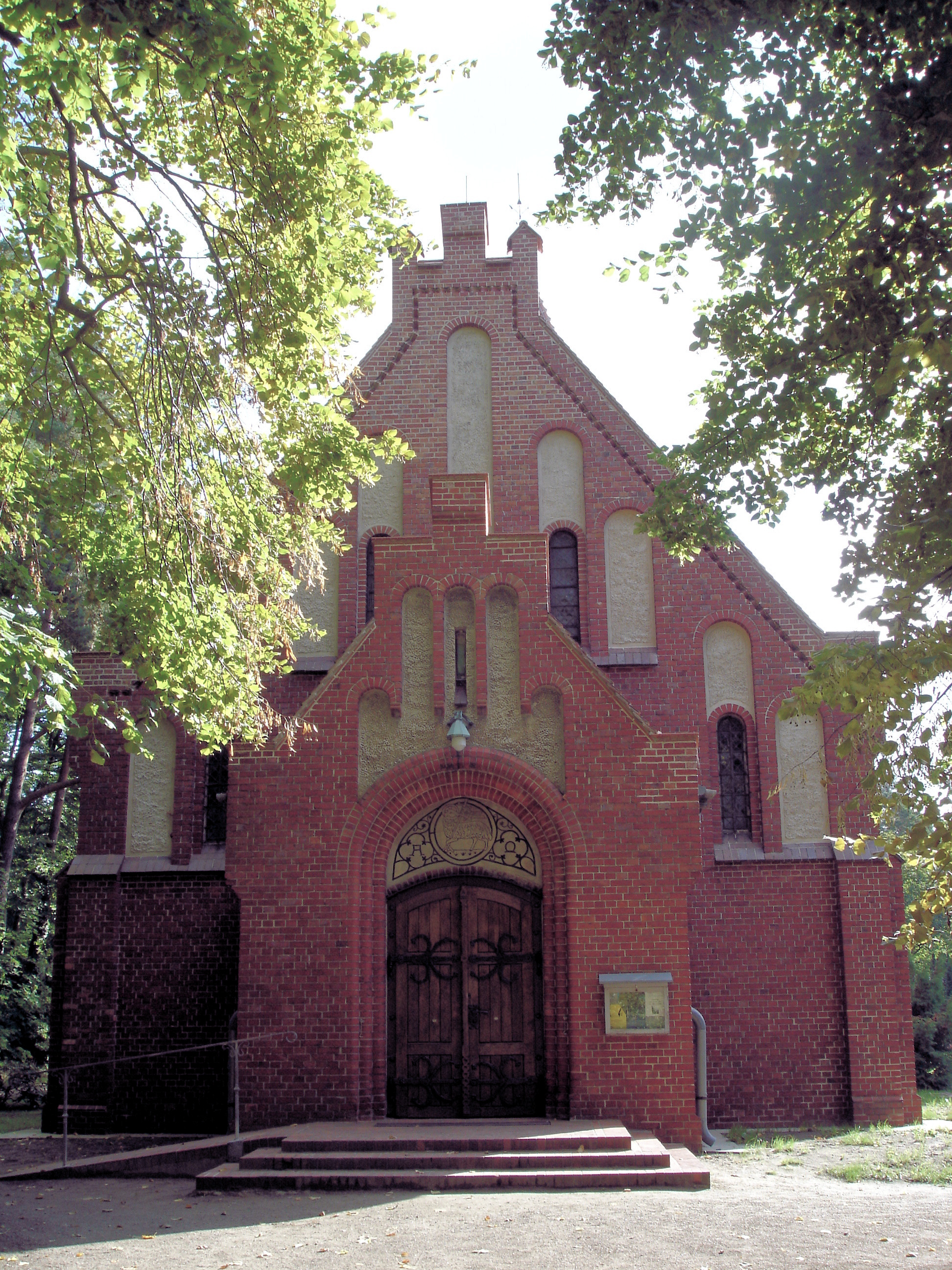 Gable of the church in Graal-Müritz, Mecklenburg, Germany